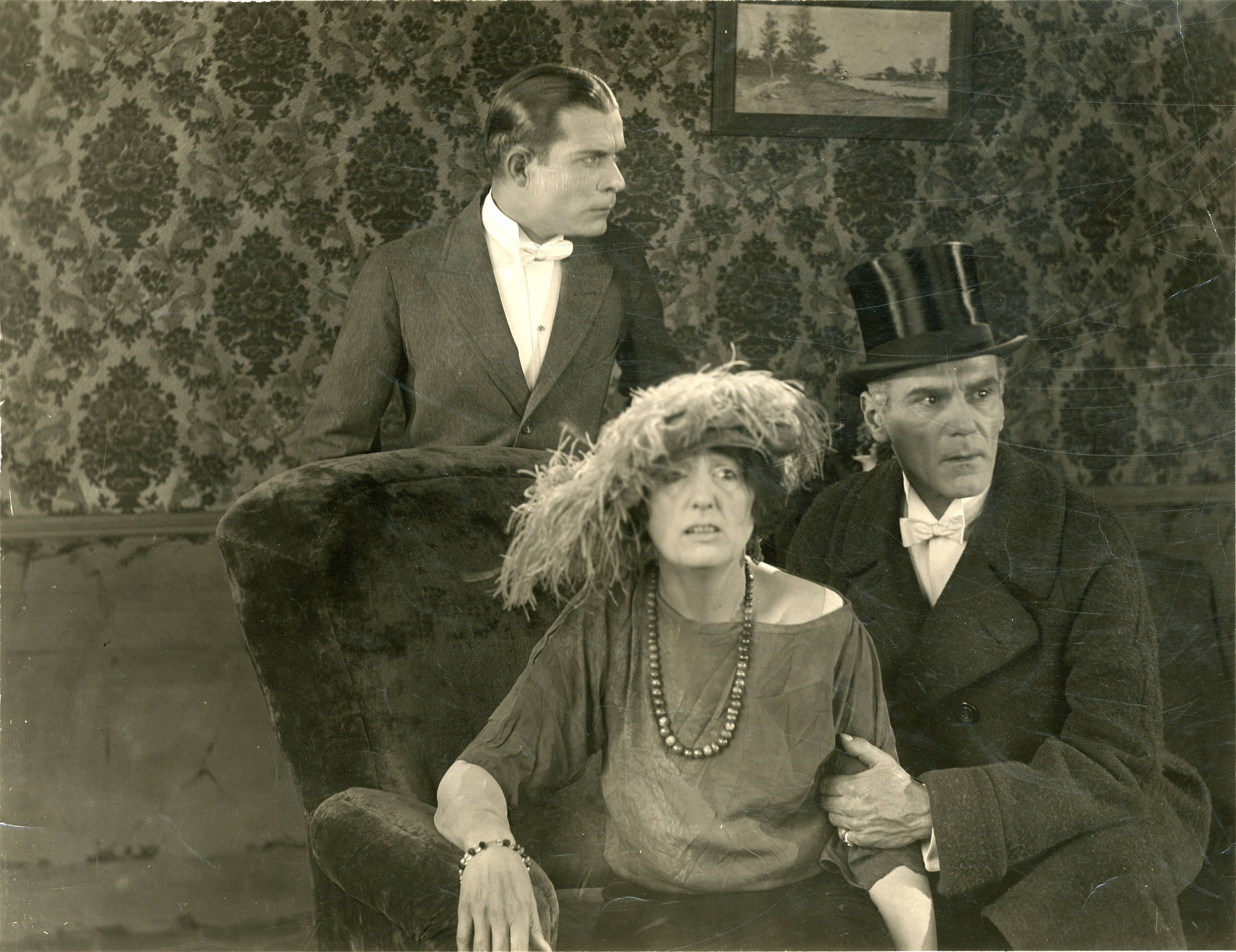 The Black Panther's Cub is a 1921 silent film melodrama produced by William K. Ziegfeld, Florenz Ziegfeld's younger brother. This is a scene from the film with Florence Reed, Earle Foxe, and Norman Trevor (aka Norman Pritchard).